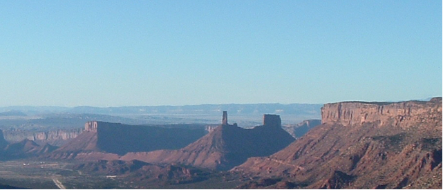 Castle Rock is one of the most famous landmarks in the Moab area, on the edge of Castle Valley. The rock has appeared in countless movies and comercials.